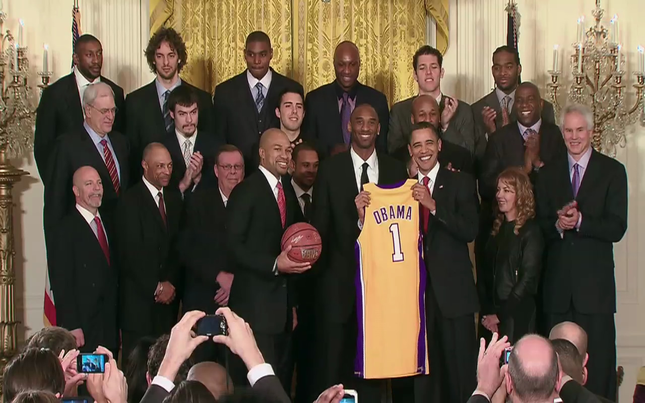 The President welcomes the Los Angeles Lakers to the White House to honor them for winning the 2009 NBA Championship.